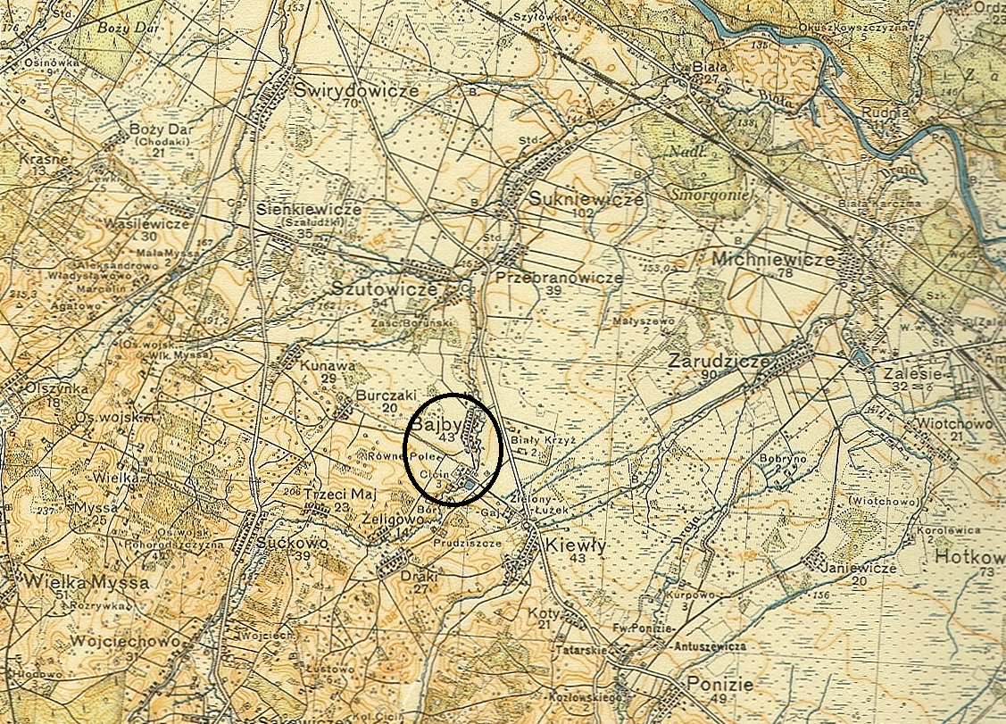 Part of map of Wojskowy Instytut Geograficzny 1935 year. Village Bajby inside black oval.